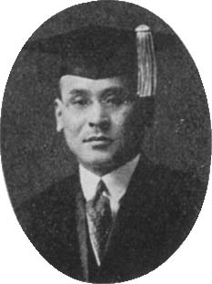 Kinshichi Inage.